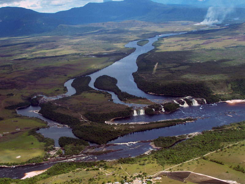 Aerial photograph of Canaima National Park